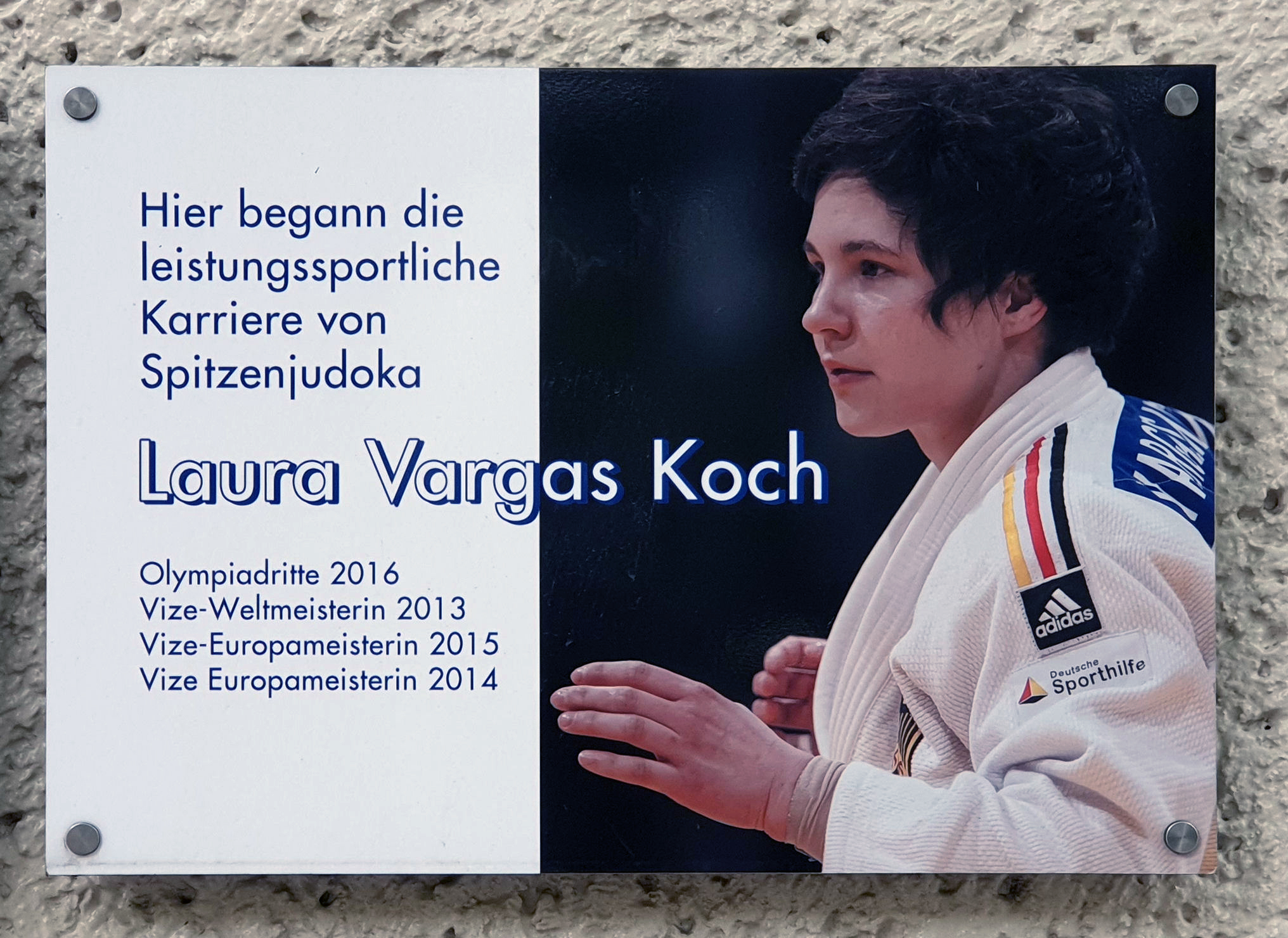 Memorial plaque, Laura Vargas Koch, Mariendorfer Weg 70, Berlin-Neukölln, Deutschland